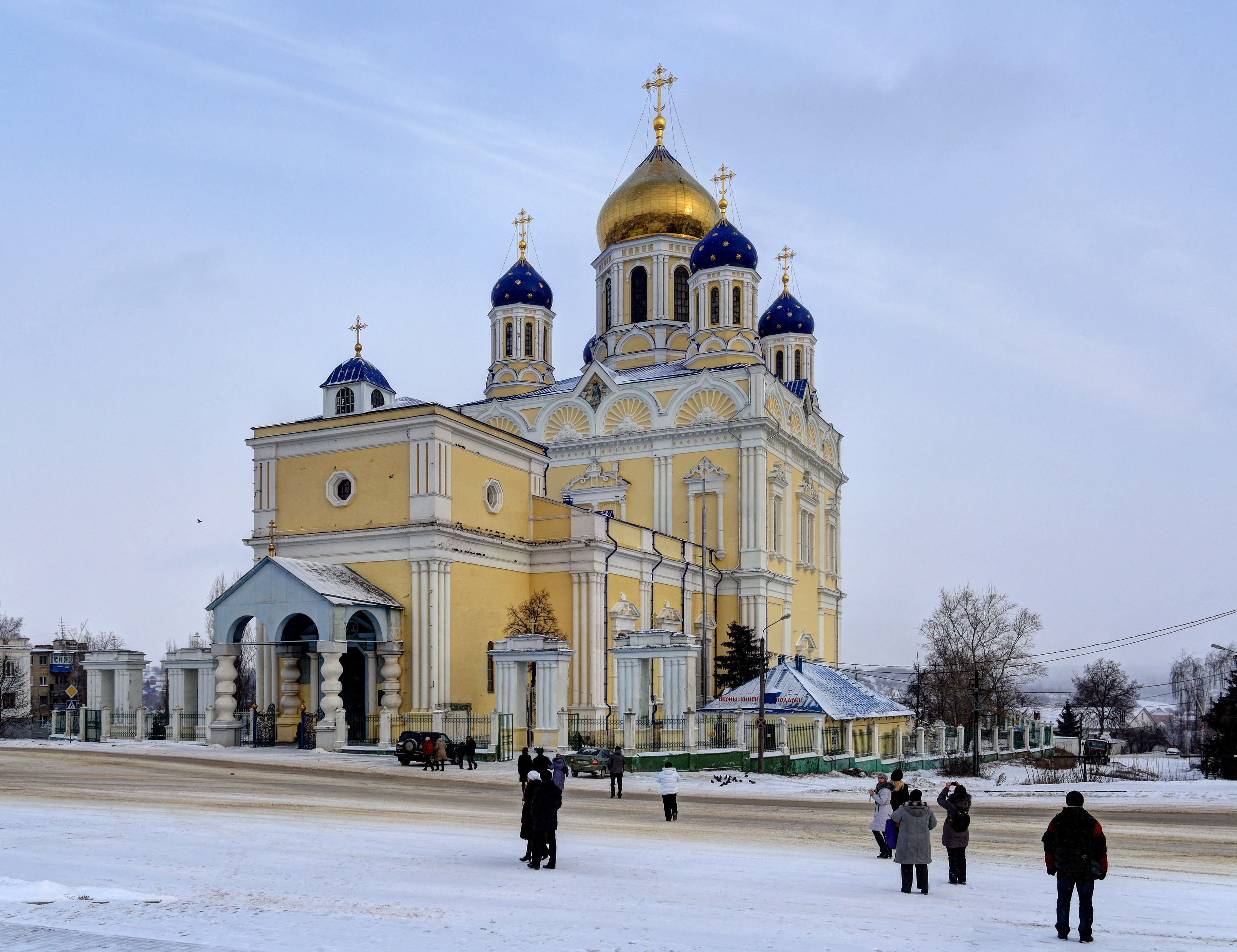 Yelets. Church of the Ascension